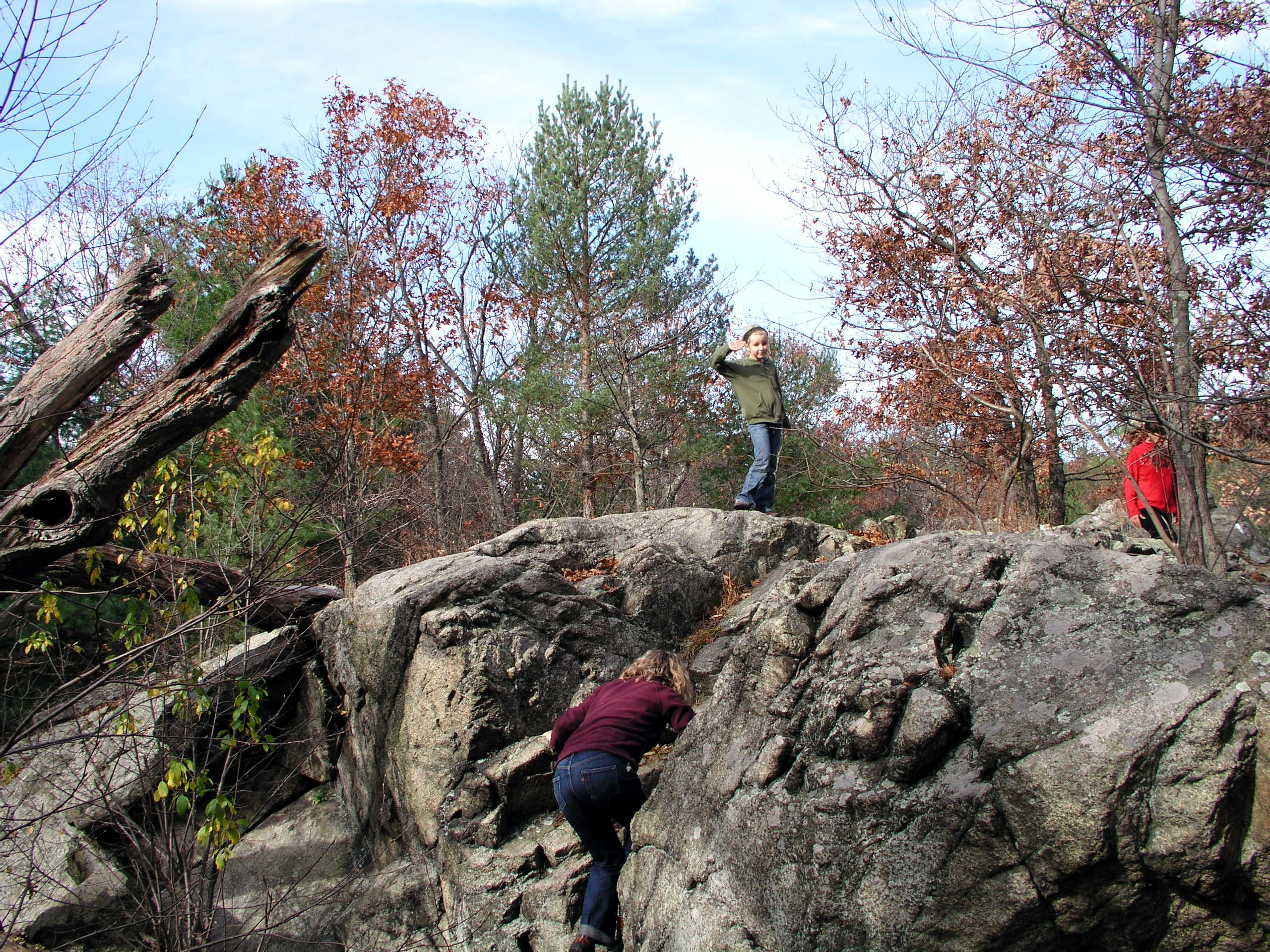 Kids climbing the rock near the Panther Cave in Middlesex Fells Reservation.